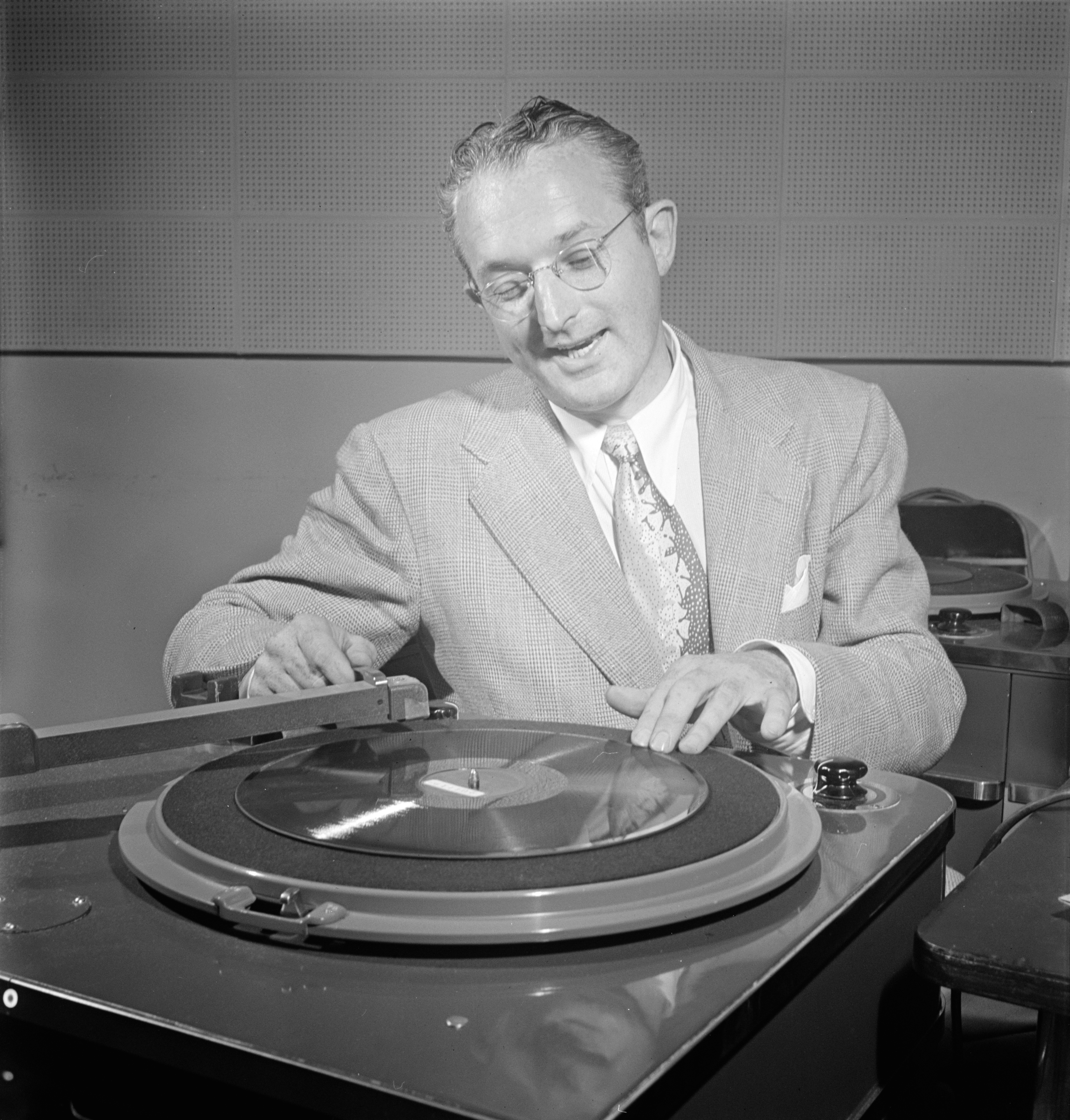 Tommy Dorsey, WMCA, New York